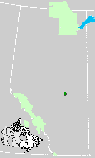 Location of Elk Island National Park